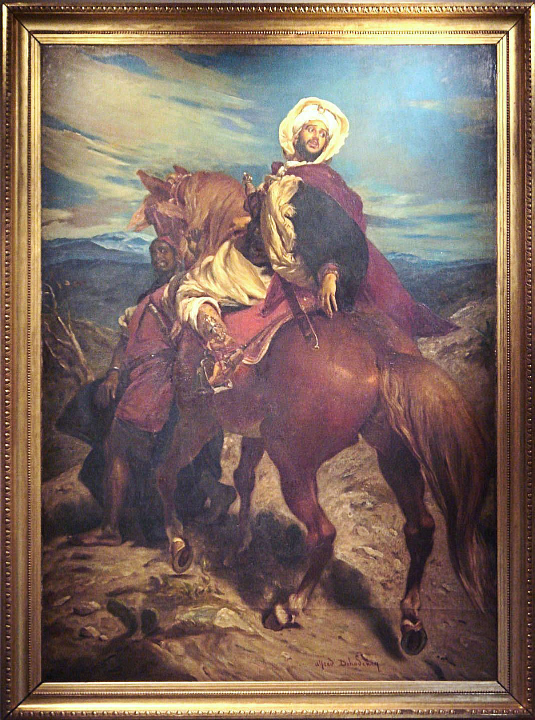 Les_Adieux_du_roi_Boabdil_a_Grenade_Alfred_Dehodencq_1822_1882.